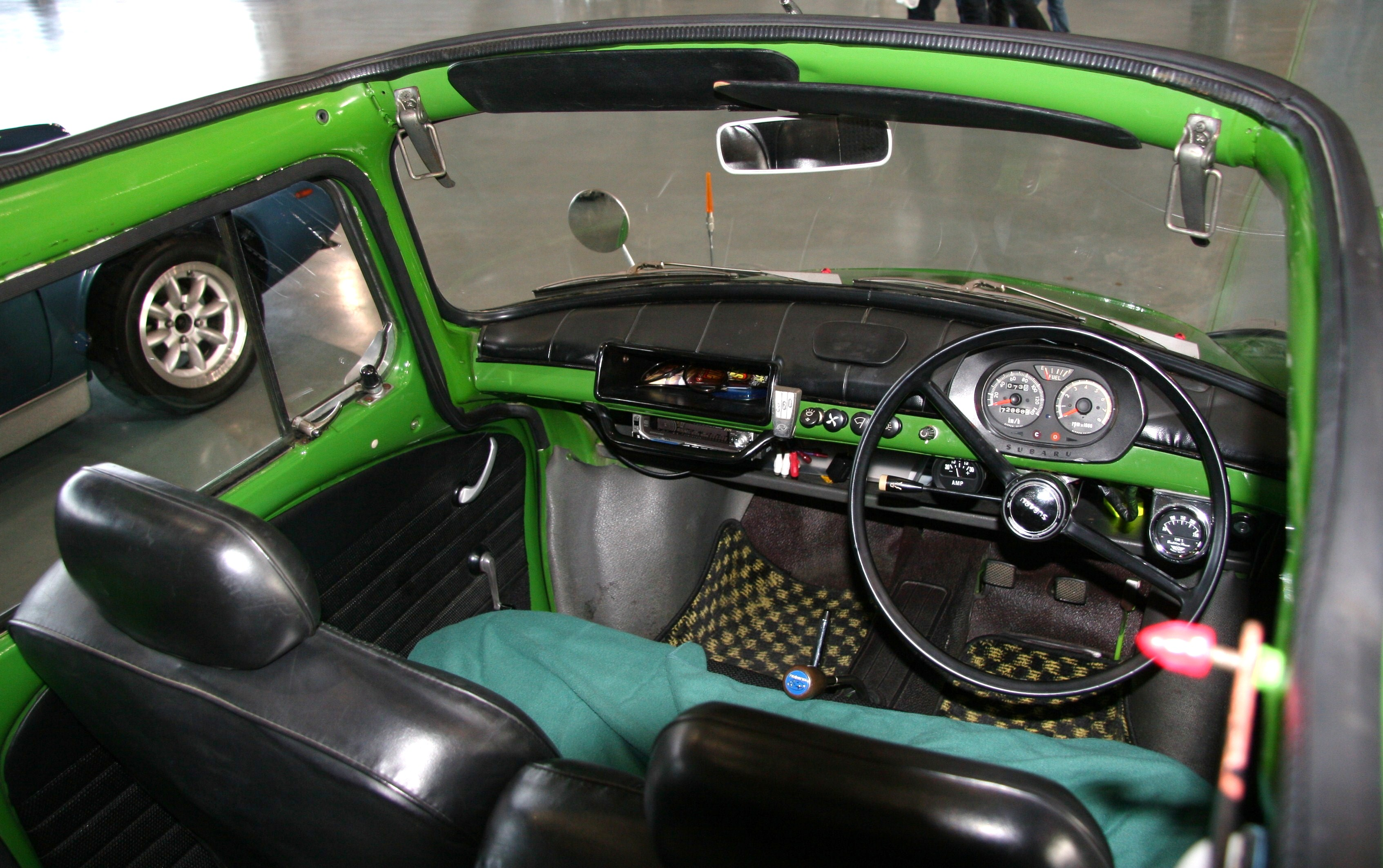 Subaru 360